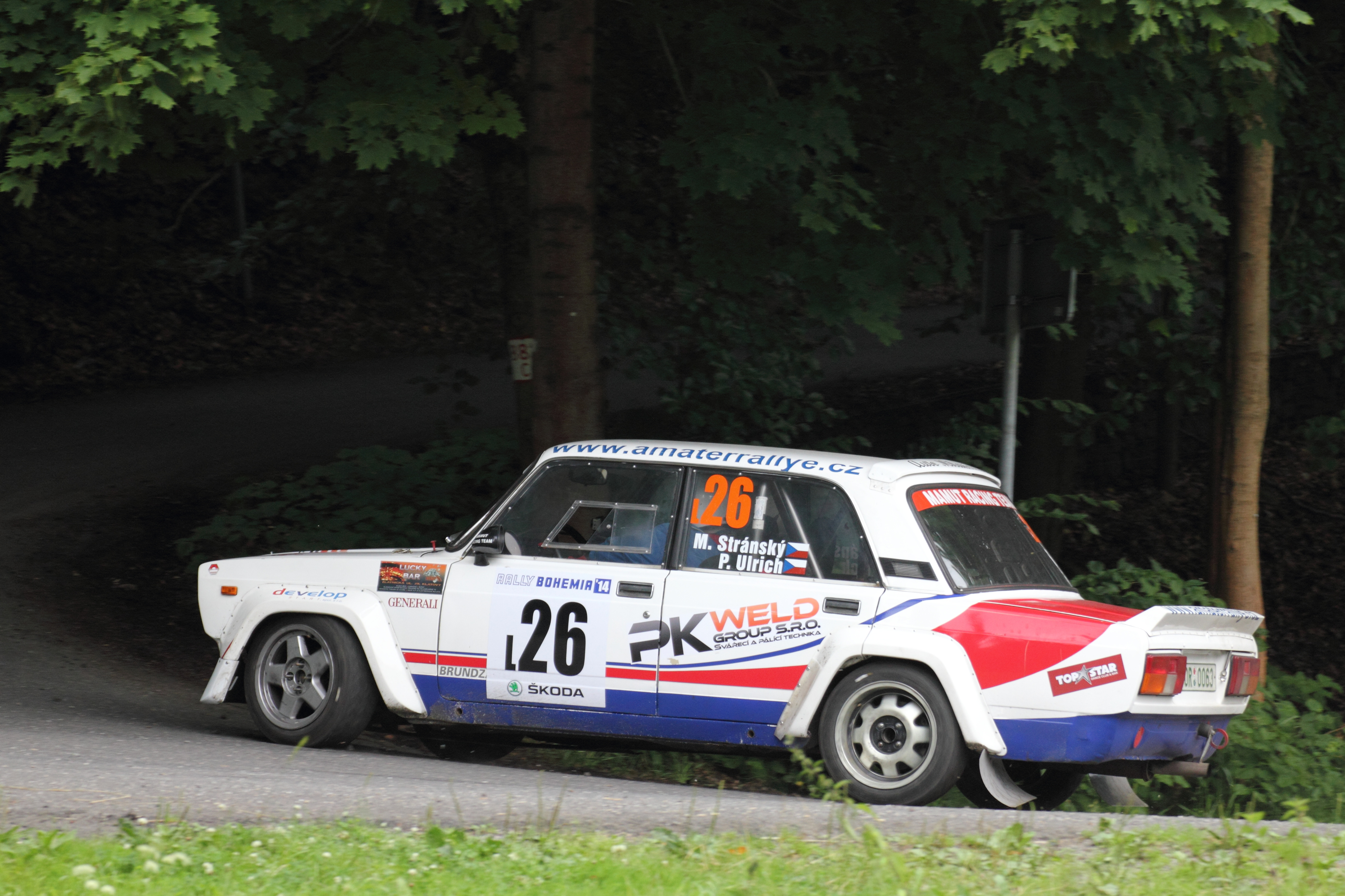 STRÁNSKÝ / NEMELKA, Lada VFTS (B, 1985), 2014 Rally Bohemia Legend